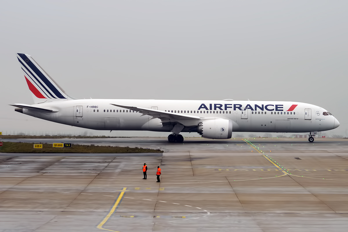 Air France, F-HRBC, Boeing 787-9 Dreamliner